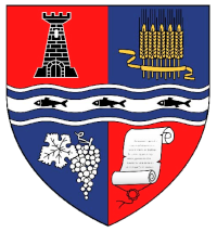 Coat of arms of Bihor County, Romania.